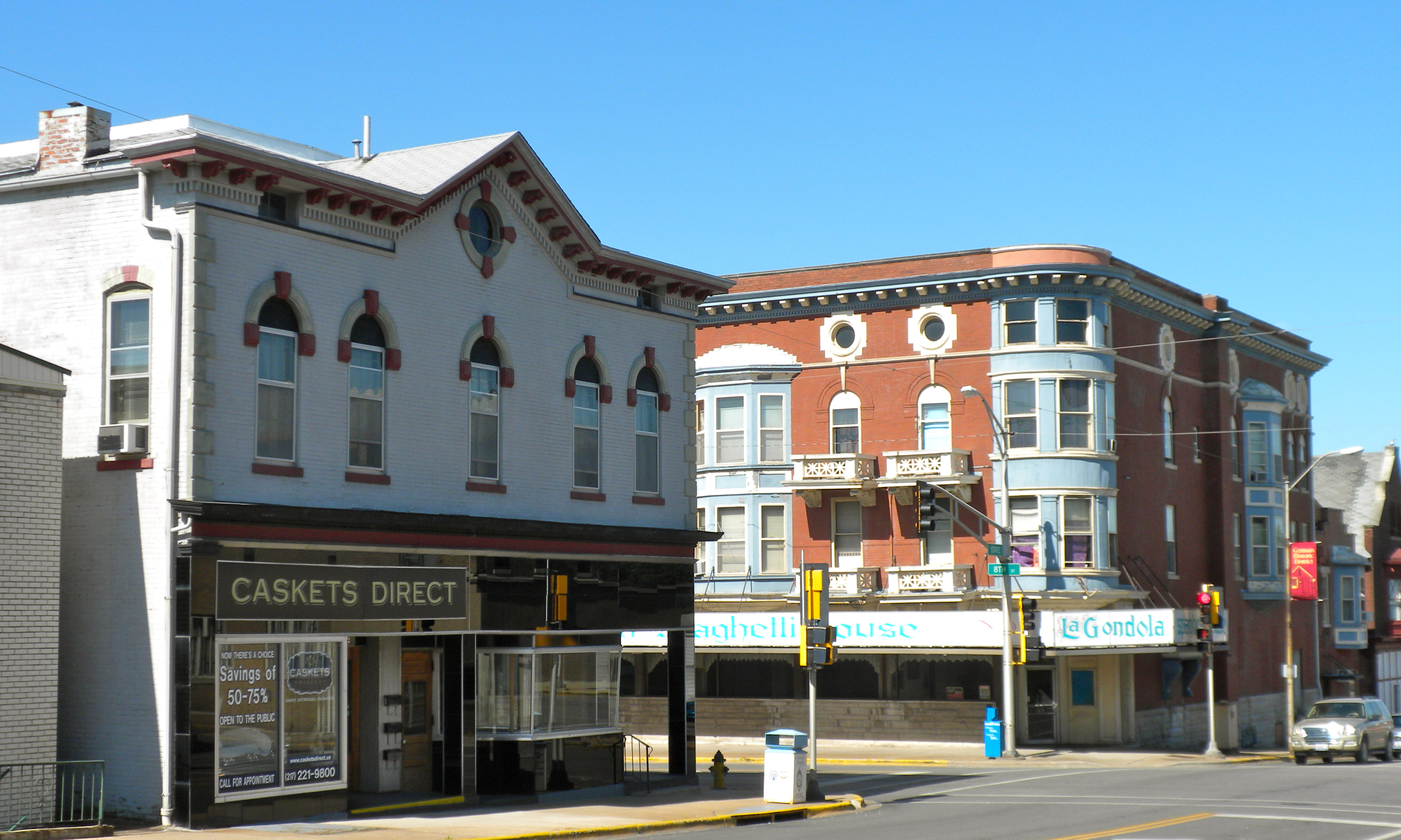 Buildings at State and Eighth Streets in Quincy, Illinois. Part of the South Side German Historic District, on the NRHP since May 22, 1992. The Historic District is roughly bounded by 6th, 12th, Washington, Jersey and York Sts.; with a boundary increase of April 20, 1995 to being roughly bounded by Jefferson, S. 12th, Jackson and S. 5th Sts. These buildings are within a block of the HD center.